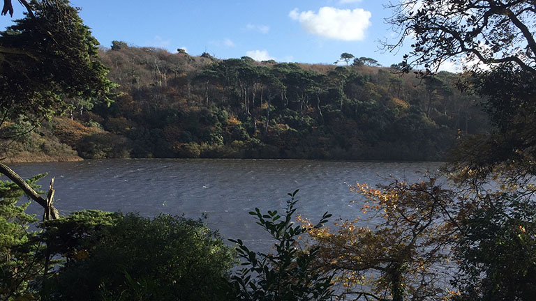 Degibna Woods and the Loe.